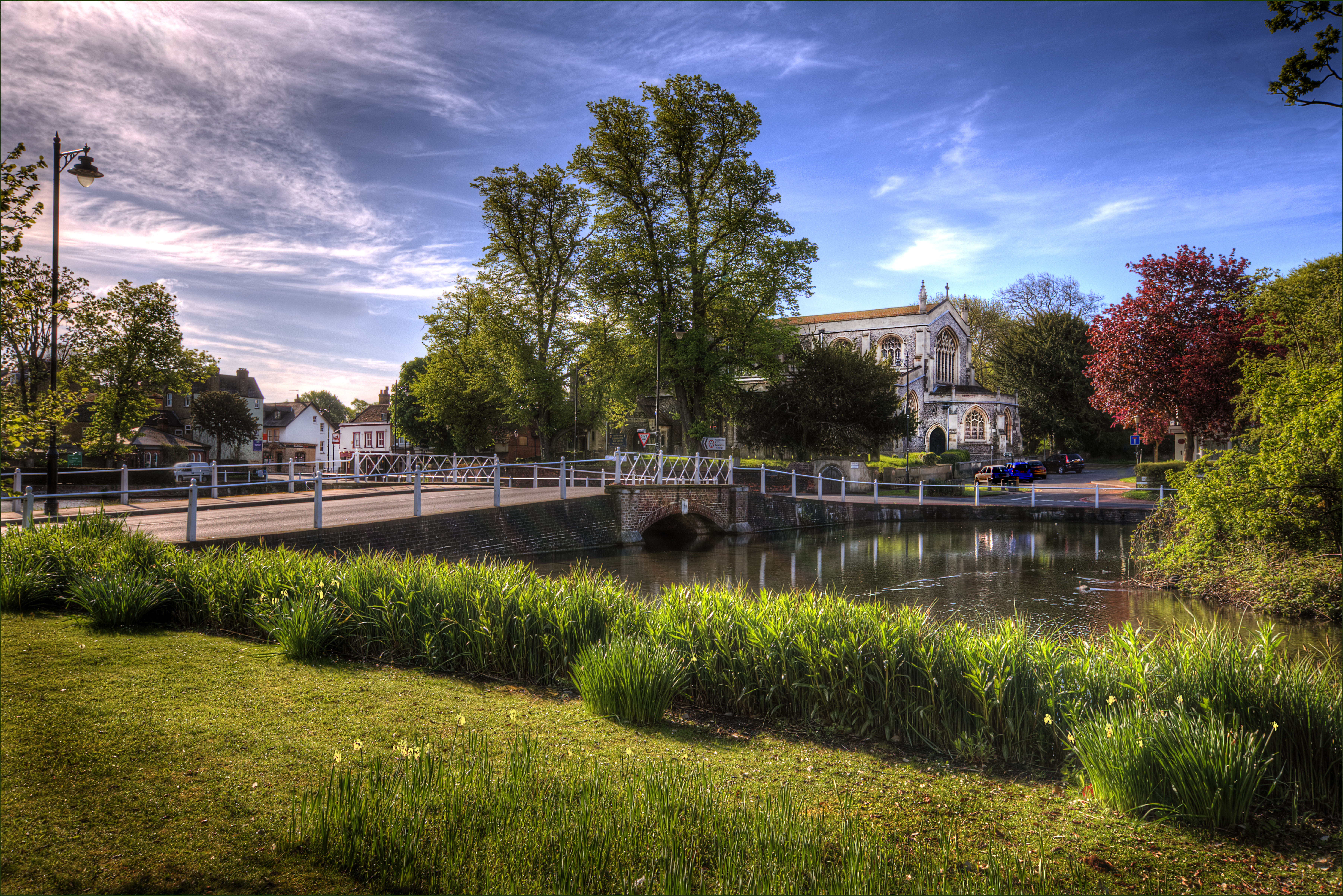 Late Spring at Carshalton Ponds in Surrey